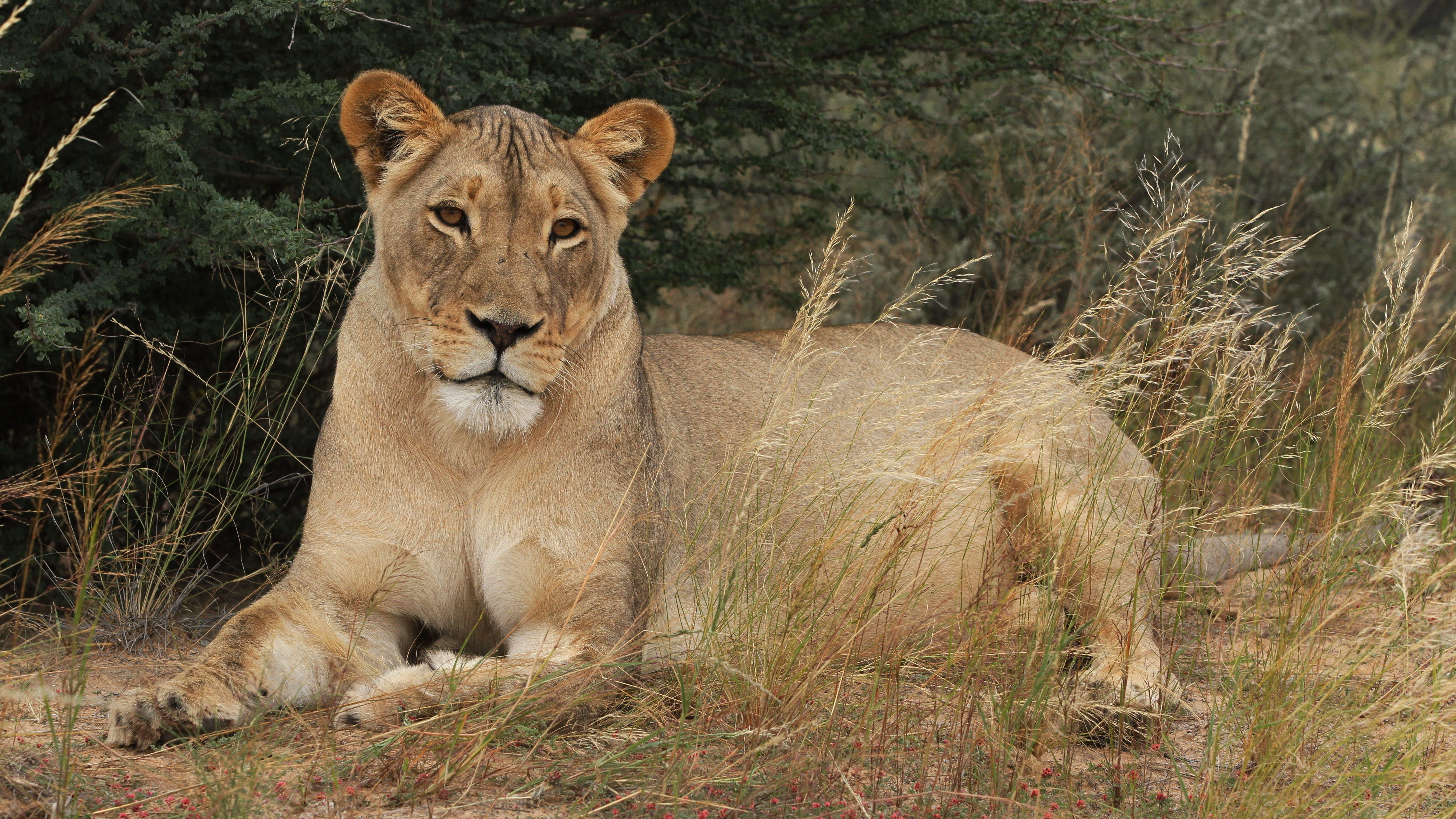 African lion, Panthera leo at Kgalagadi Transfrontier Park, Northern Cape, South Africa